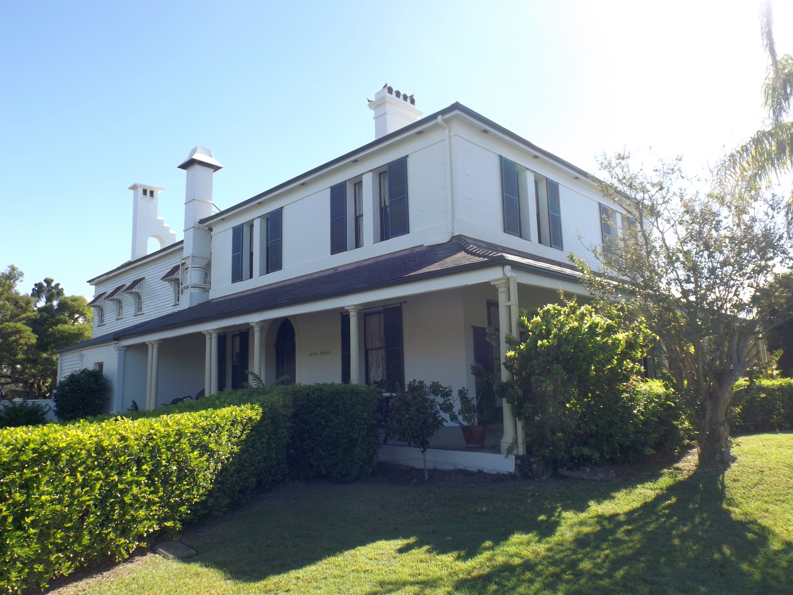 Photo of Lota House at Lota, Brisbane, Queensland, Australia.